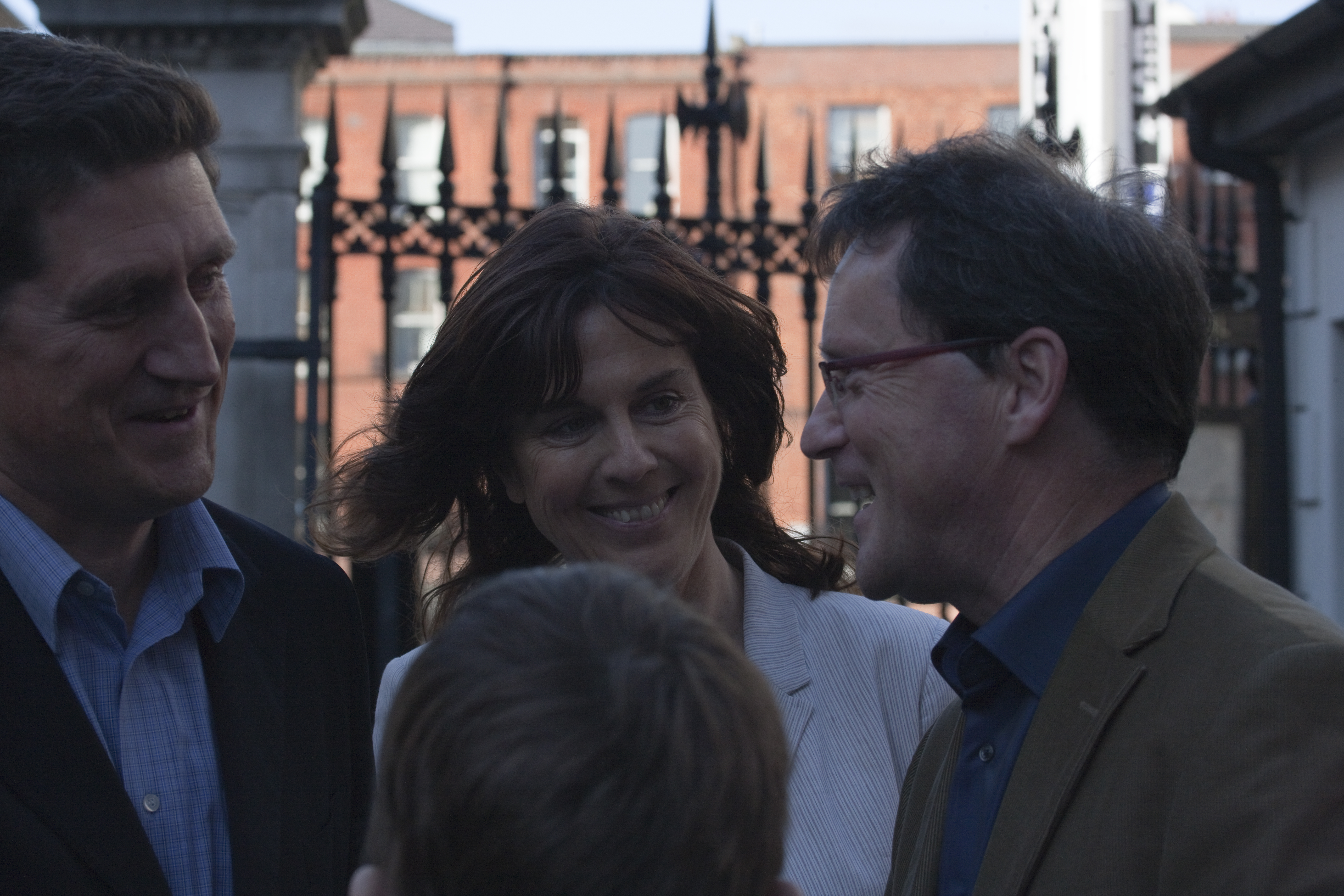 (Left to right): W:Eamon Ryan, Deirdre de Búrca, George Lee at the second Lisbon Treaty Referendum in Ireland.